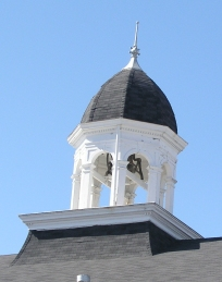 Freed-Hardeman University Bell Tower. Photo taken by Ichabod -Ichabod 14:00, 15 January 2006 (UTC)